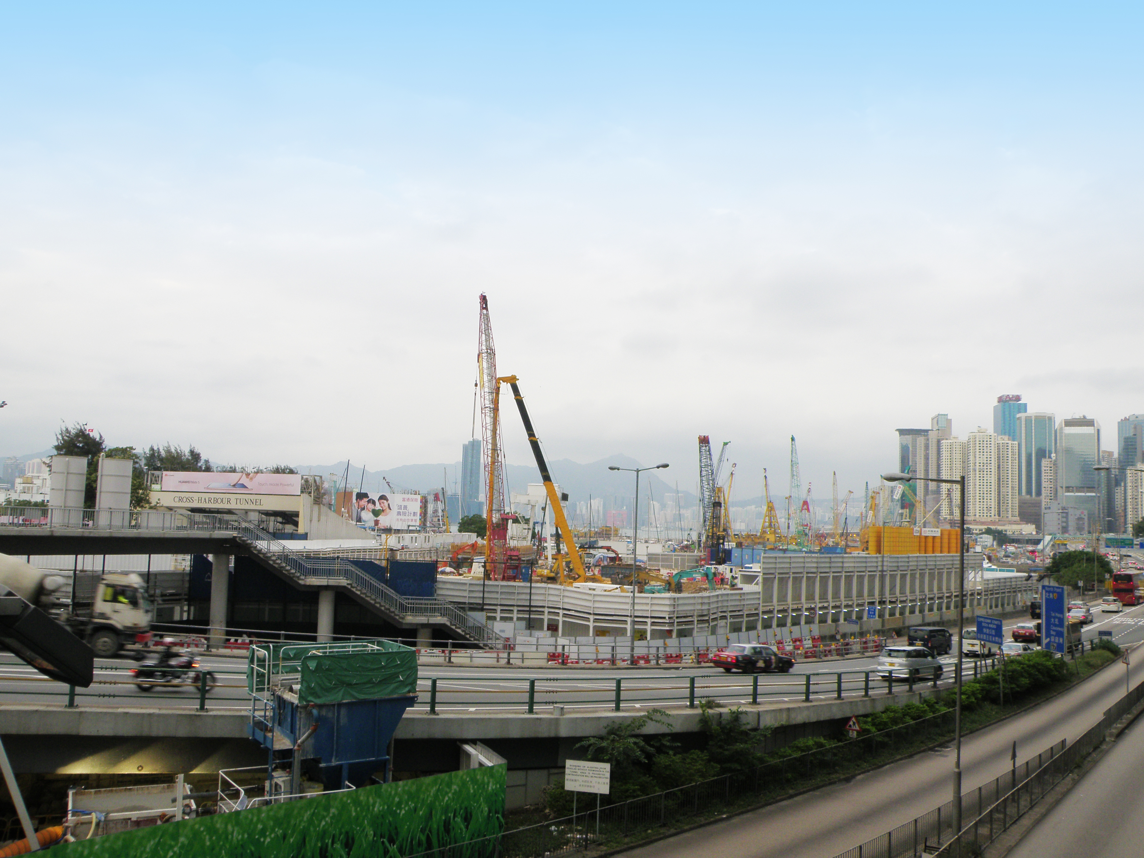 Former Police Officers' Club in Causeway Bay, Hong Kong.